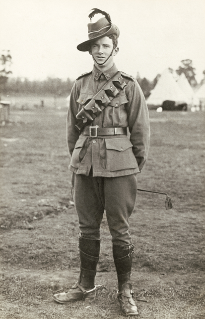 PORTRAIT OF 759 TROOPER S.J. CROZIER, 6TH AUSTRALIAN LIGHT HORSE REGIMENT, DIED OF WOUNDS 1918-03-29 AT AMMAN.